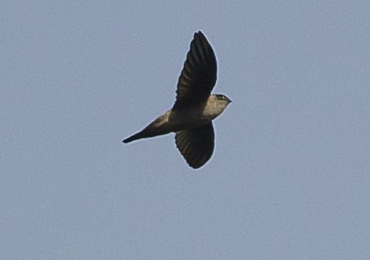 Indian Swiftlet in Thattekad, Kerala, India